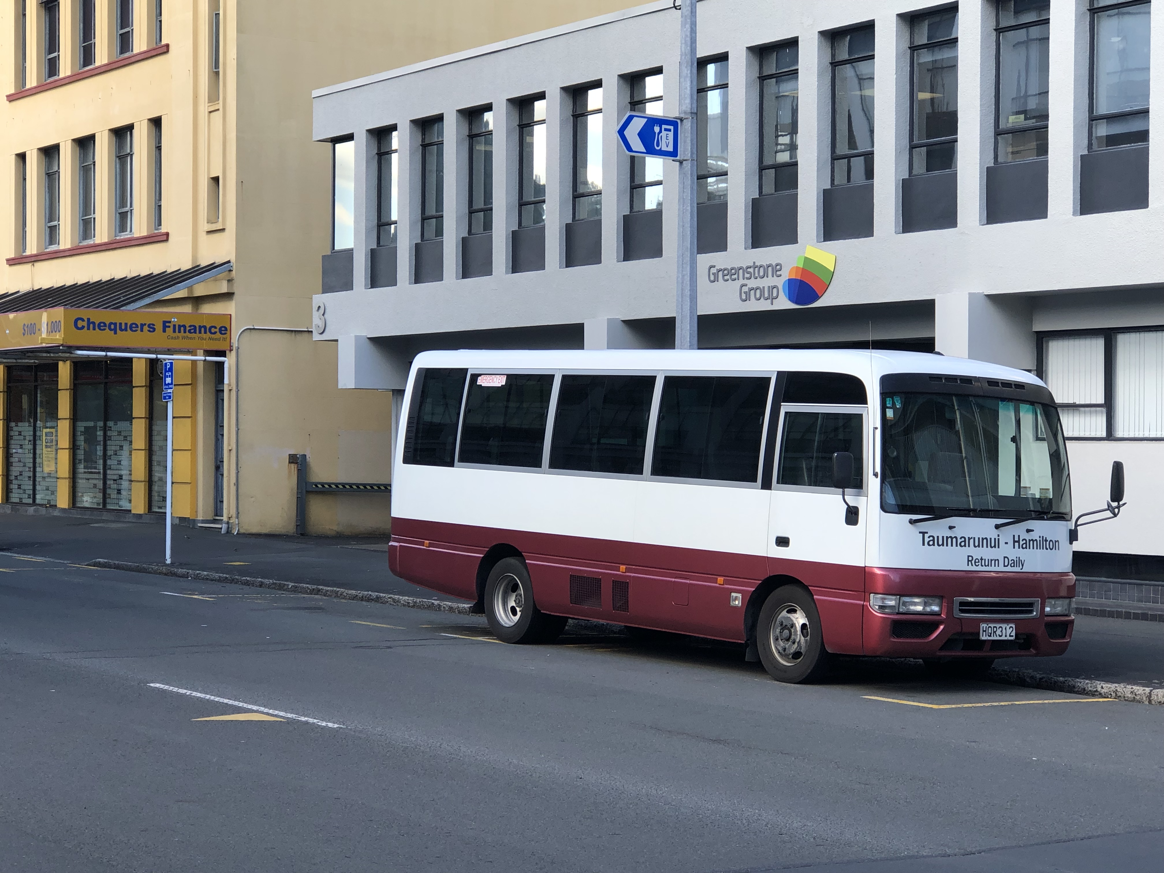 says the bus runs Mon-Fri